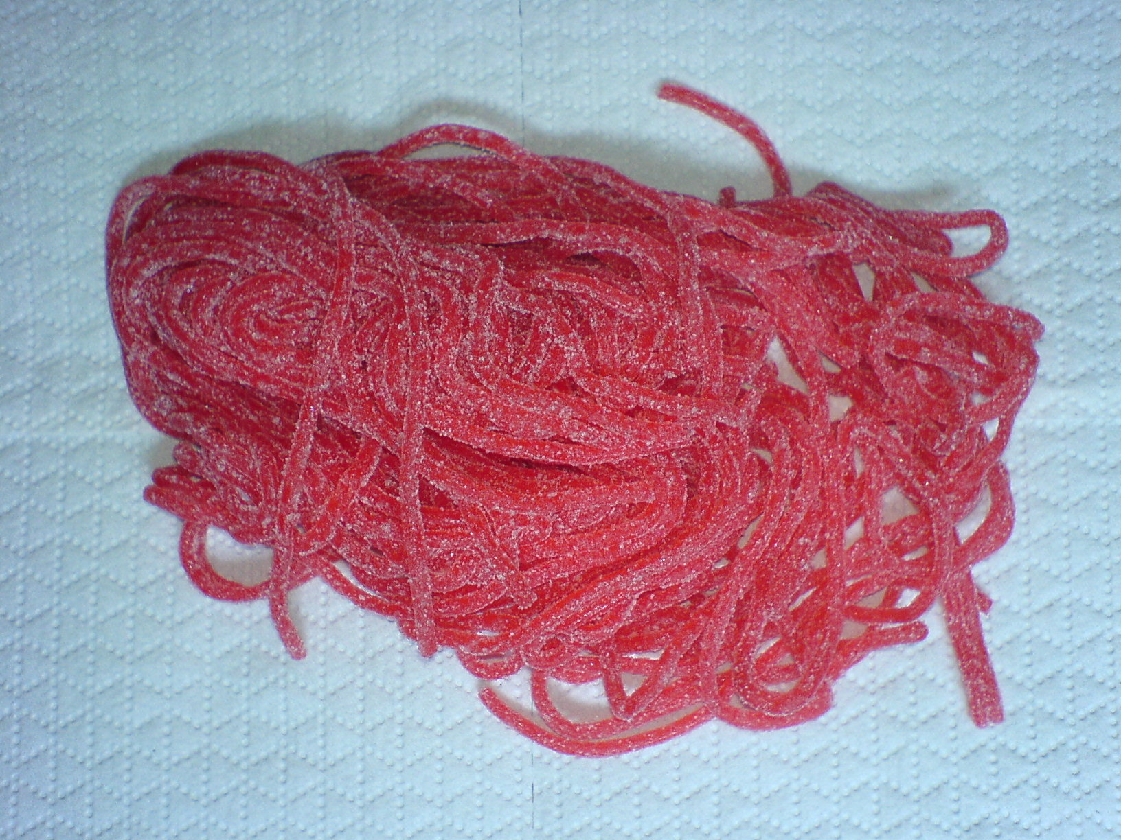 Sweets colored with Allura Red AC